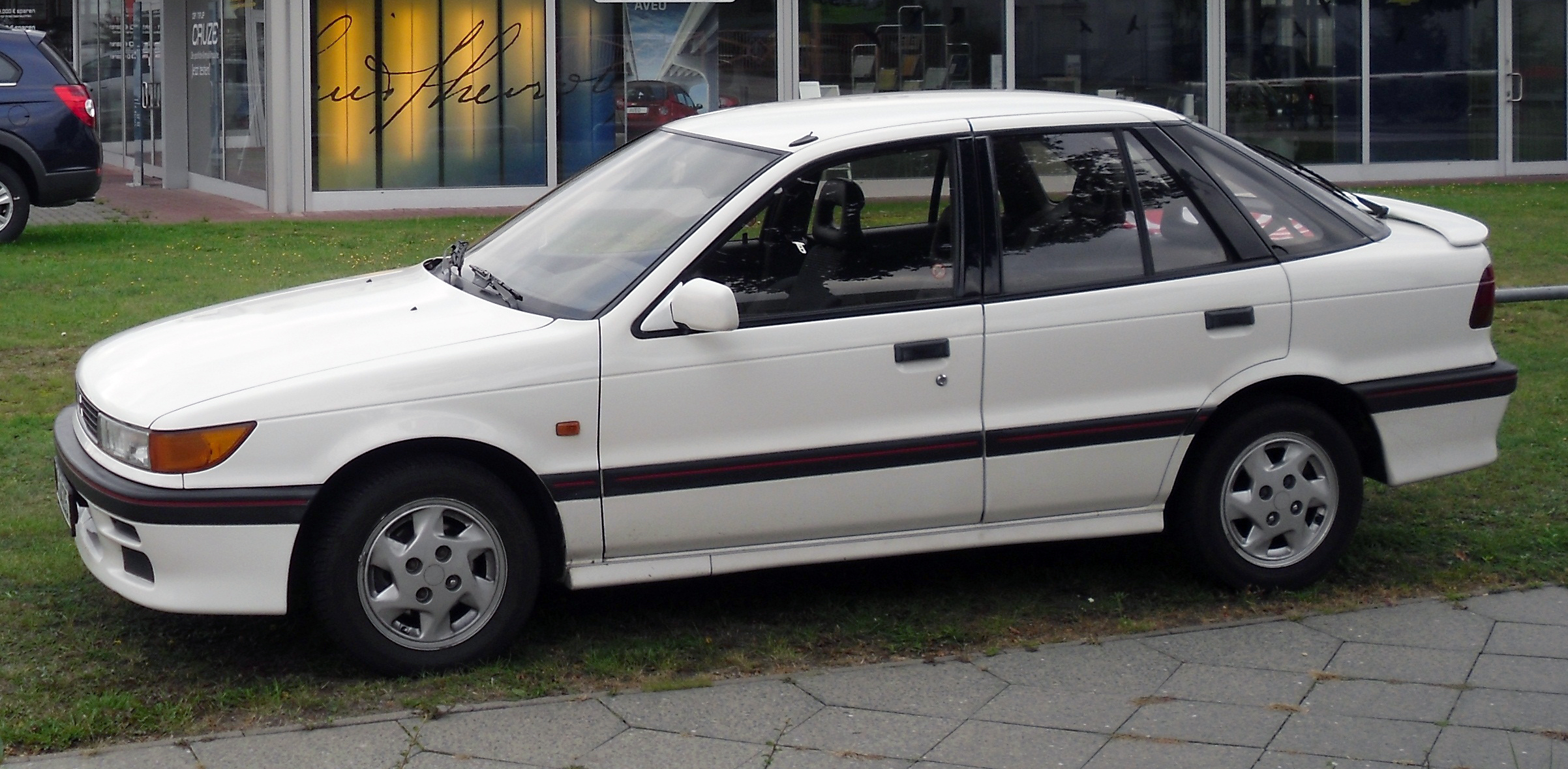 Lancer GTi-16V